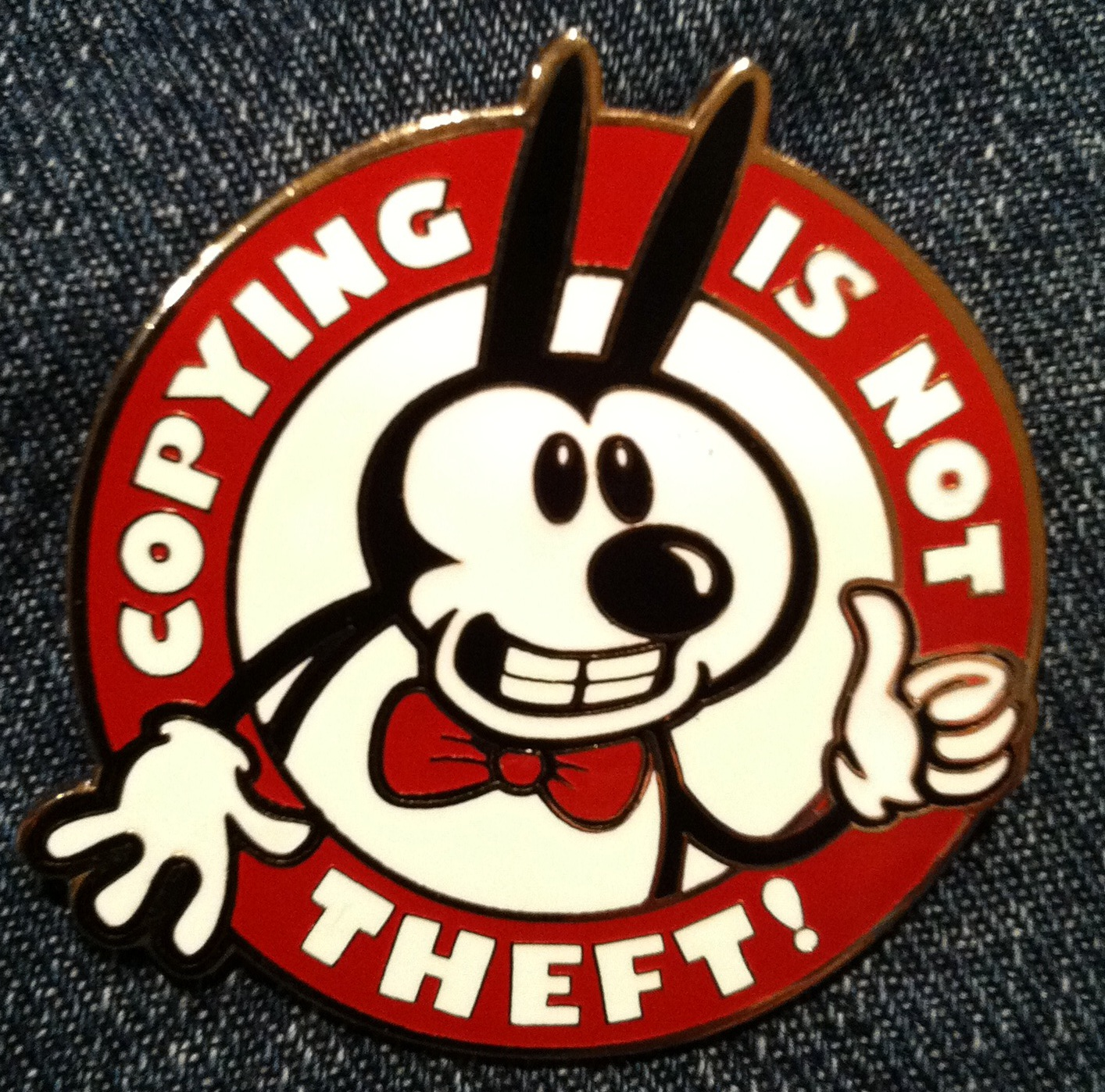 GLAM camp NYC 2011 - Nina Paley dropped in on Saturday and gave badges to some of the participants, bearing the motif "Copying is not theft!" The character portrayed on the badge bears obvious resemblance to the image of Mickey Mouse, to visually parody Mickey's role as a symbol for the collective attitude of the intellectual property industry towards copying.